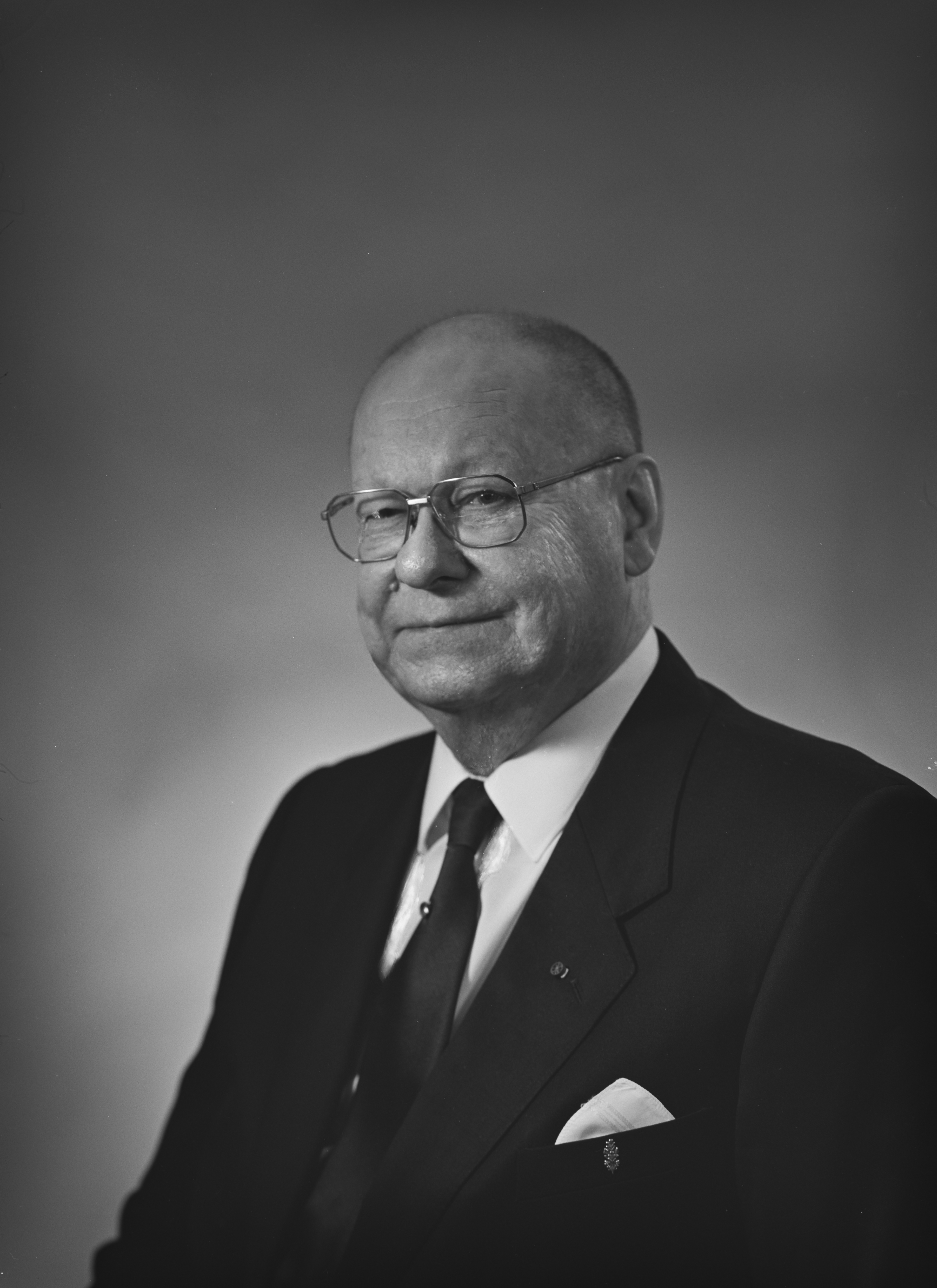 Photograph of the Finnish businessman Veli Aine (1919–2008).